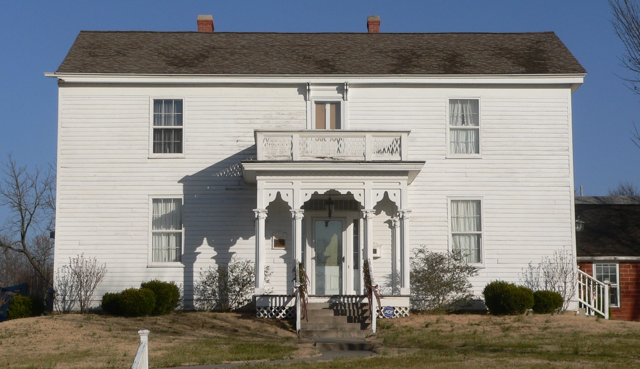 Robnett-Payne house, located at 223 E. 5th Street (northwest corner of 5th and Bluff) in Fulton, Missouri; seen from the south.